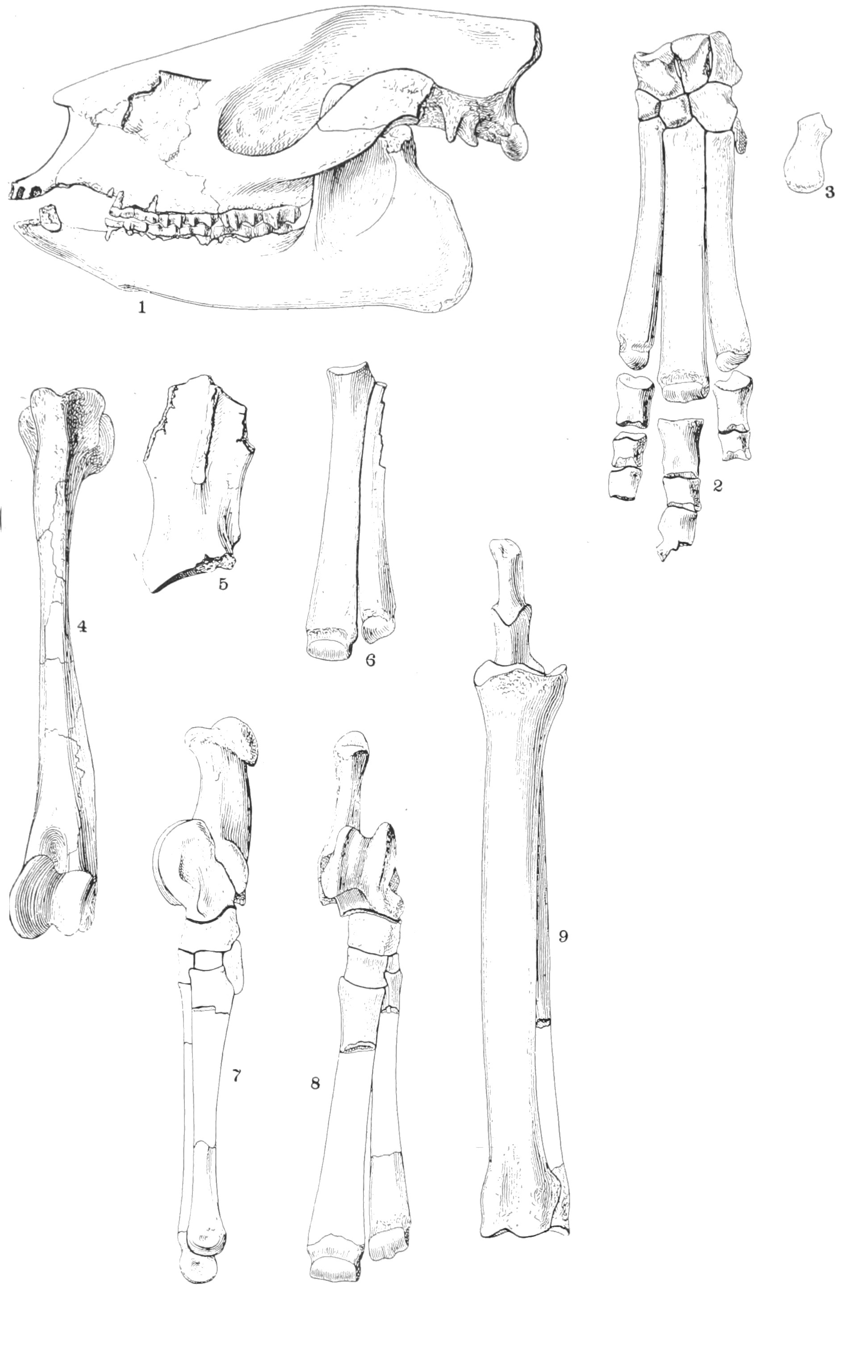 Title: Annals of the Carnegie Museum Year: 1919 (1910s) Authors: Carnegie Museum; Carnegie Museum of Natural History Subjects: Carnegie Museum; Carnegie Museum of Natural History; Natural history Publisher: [Pittsburgh : Published by authority of the Board of Trustees of the Carnegie Institute] Text Appearing Before Image: ANNALS CARNEGIE MUSEUM, Vol. XII. Plate XLVi Text Appearing After Image: Prolhyracodon from the Uinta. (For explanation see opposite page.)